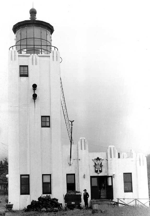 Public Domain statement here; The Cape Hinchinbrook Light is a lighthouse located near the southern end of Hinchinbrook Island adjacent to Prince William Sound, in Alaska, United States.